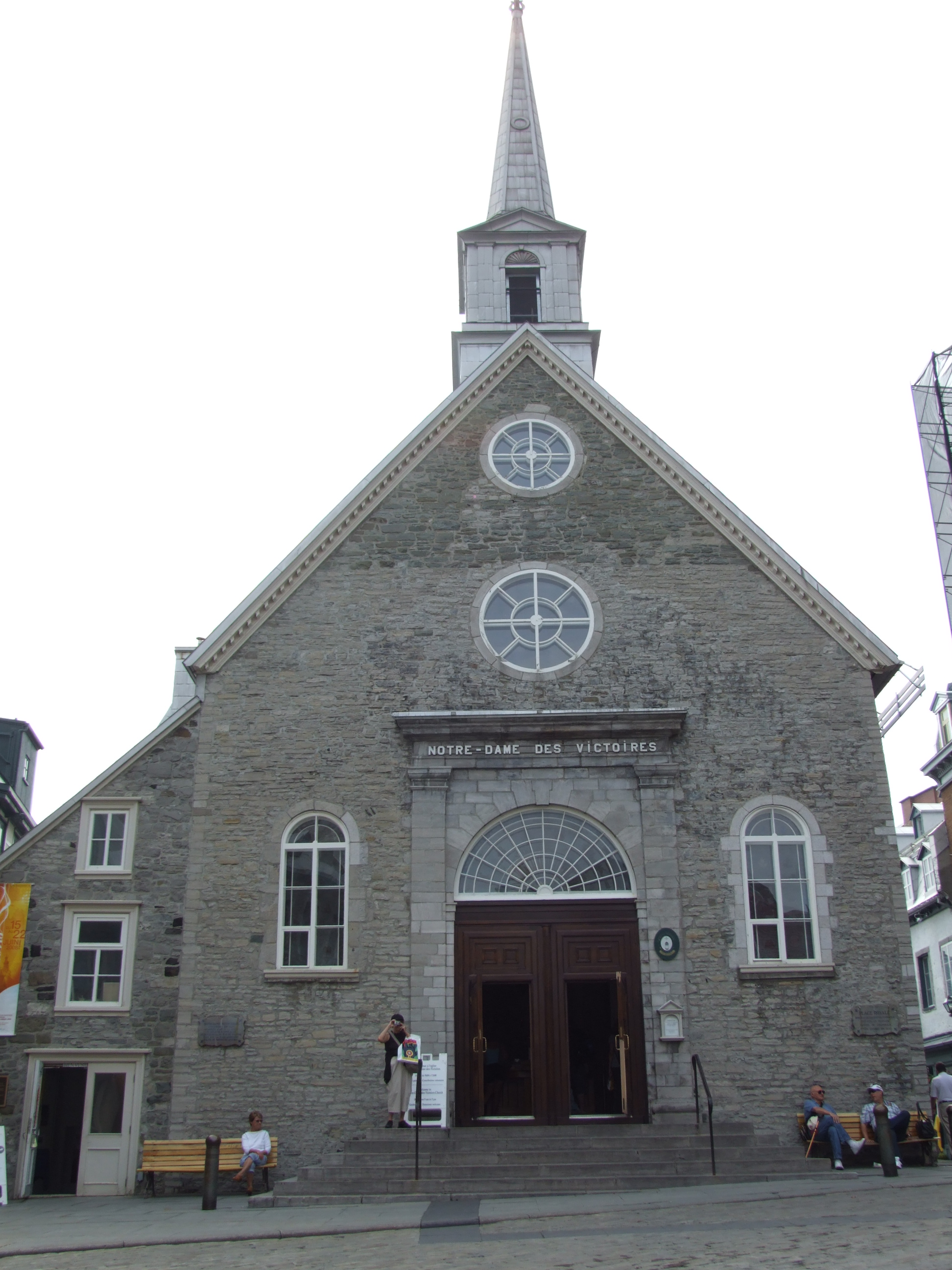 Quebec city, CANADA